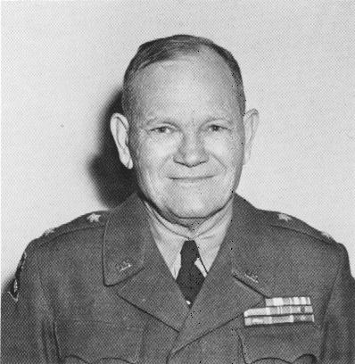 U.S. Army photograph of Major General Frank W. Milburn as commanding general of the U.S. XXI Corps.